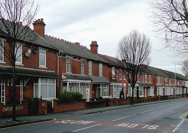 Terraced housing in Lea Road, Wolverhampton Much of the Penn Fields area was developed in the late nineteenth and early twentieth centuries. Most corners had a shop on, and some of these are used as such even now, this being a multi-ethnic community in which small mini-markets and general stores are frequently found. These solid terraced houses have been well maintained and upgraded. New roofing (minus chimney stacks when central heating has been installed) is on many of them. This image of the Lea Road is by the junction with Lonsdale Road. Lea Road does have a bus route on it.